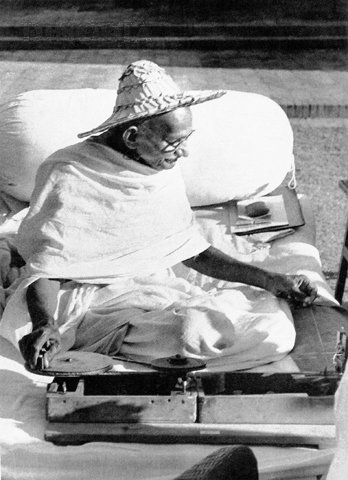 Wearing a Noakhali hat whilst spinning at Birla House, New Delhi, November 1947.